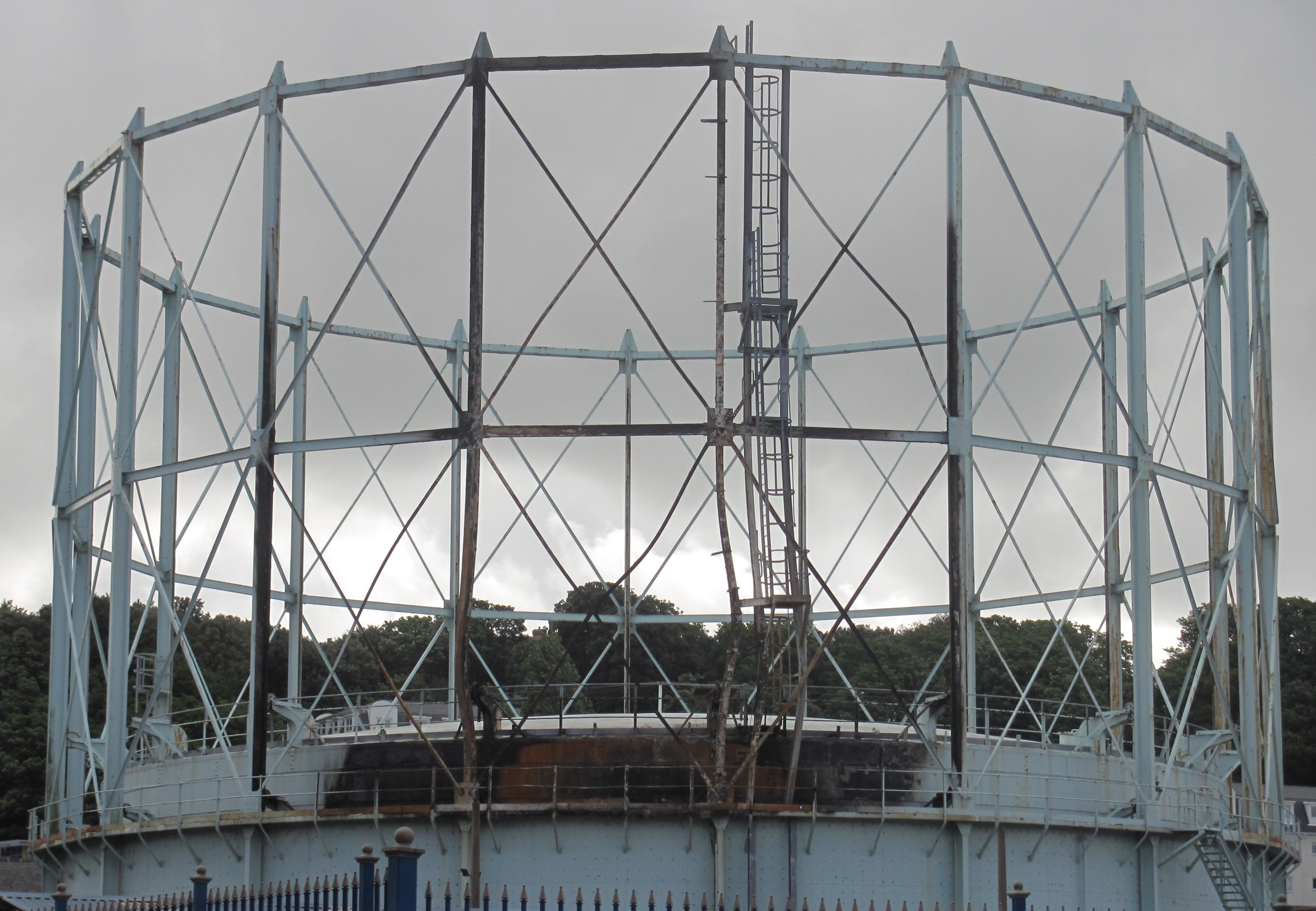 The 2012 Jersey gas holder fire occurred when fire broke out at a gas holder, owned by Jersey Gas, on Tunnell Street, in Saint Helier, Jersey. The Jersey Fire and Rescue Service brought the fire under control, and it burnt out during the early hours of 5 July 2012.